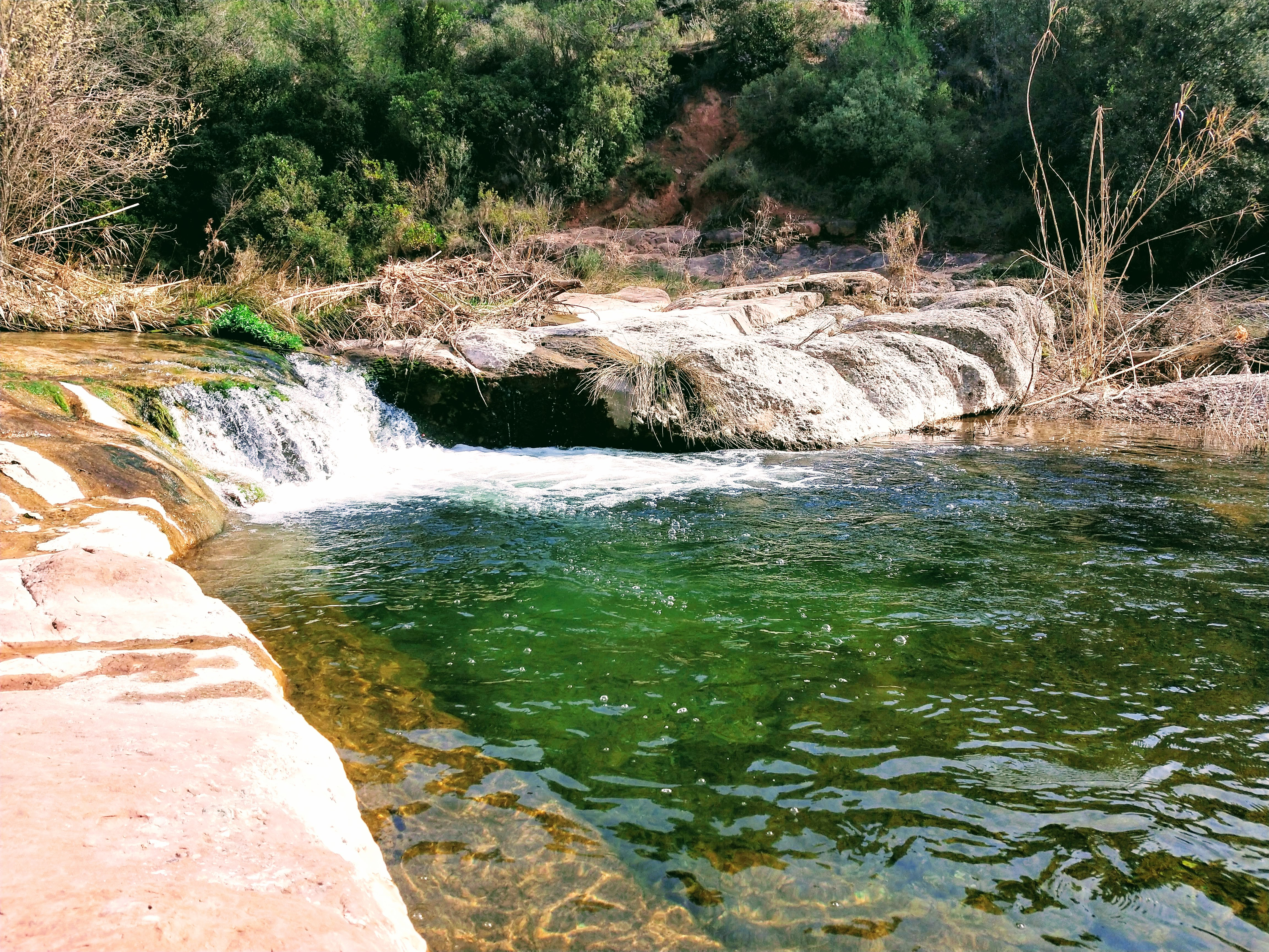 Segunda poza de las tres balsas de Castellbell